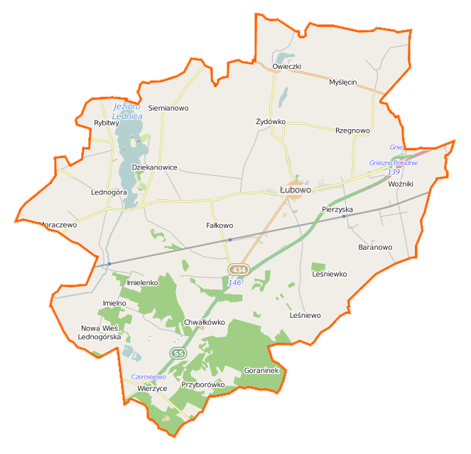 Map of Gmina Łubowo, Poland This map of Łubowo (gmina) was created from OpenStreetMap project data, collected by the community. This map may be incomplete, and may contain errors. Don't rely solely on it for navigation. Border coordinates52.569017.3138←↕→17.541452.4351